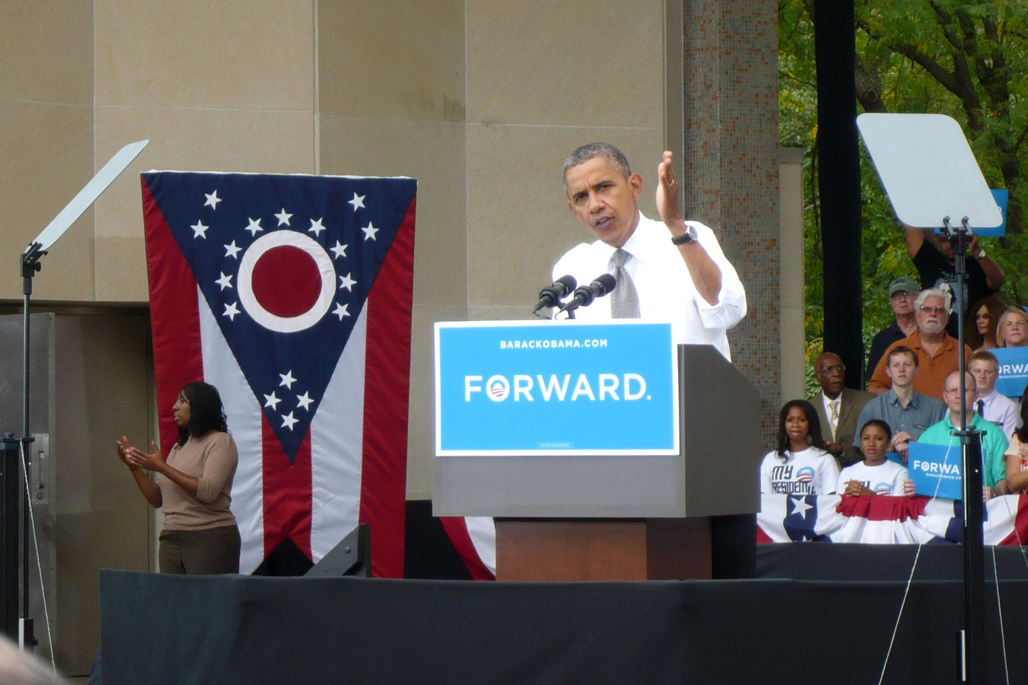 United States President Barack Obama speaking at Seasongood Pavilion in Eden Park in Cincinnati, Ohio during the Presidential Election Campaign on September 17, 2012